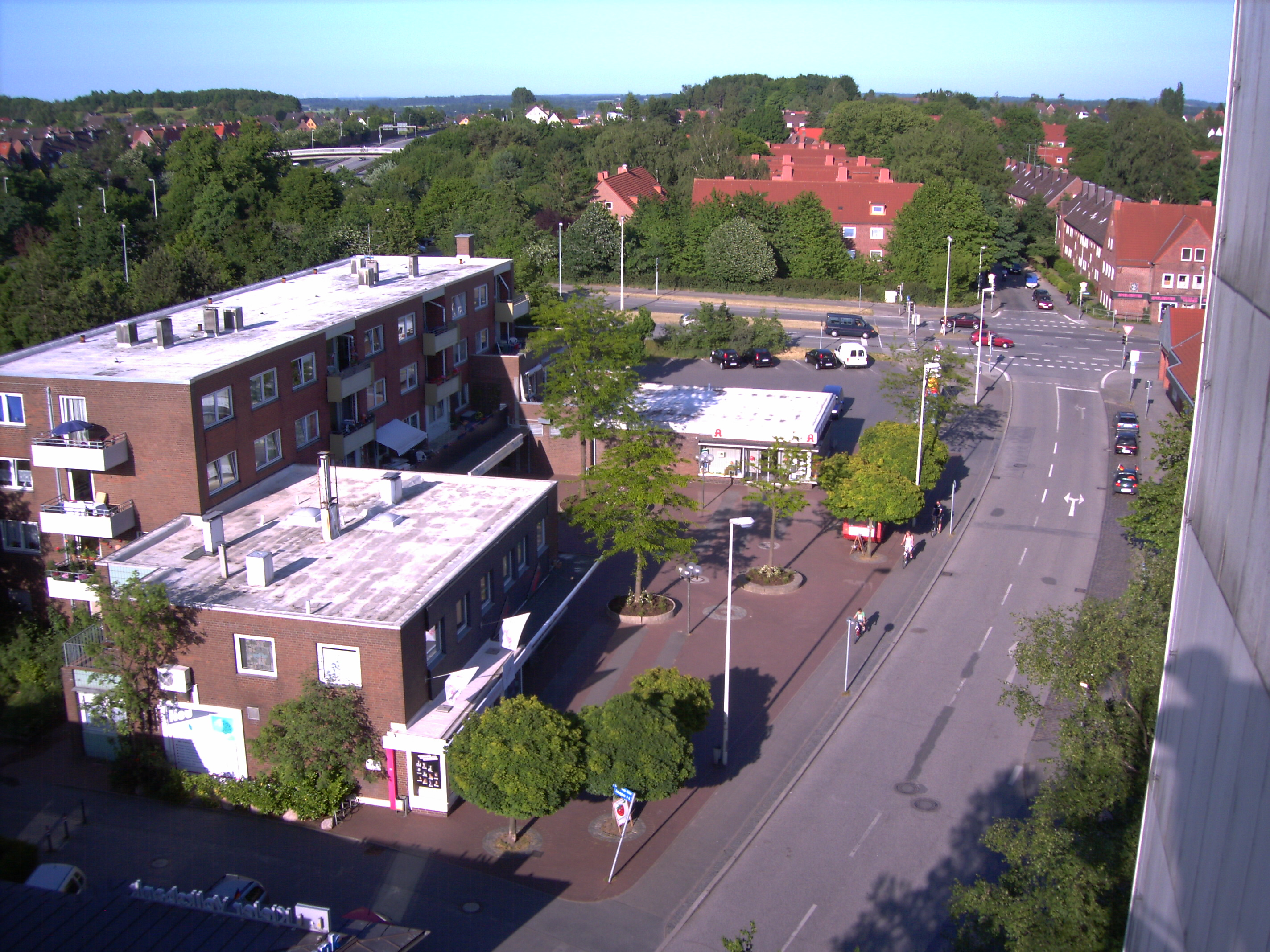 Kiel-Elmschenhagen (South), Bebelplatz, view towards the East, background to the left: Preetzer Chaussee (Bundesstraße 76 (B 76)) towards Raisdorf, Preetz, Plön, Eutin, Scharbeutz, Timmendorfer Strand